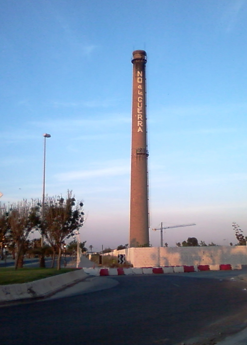 Chimney of the Central Termoeléctrica, Málaga, Spain